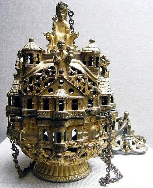 Gozbert Censer